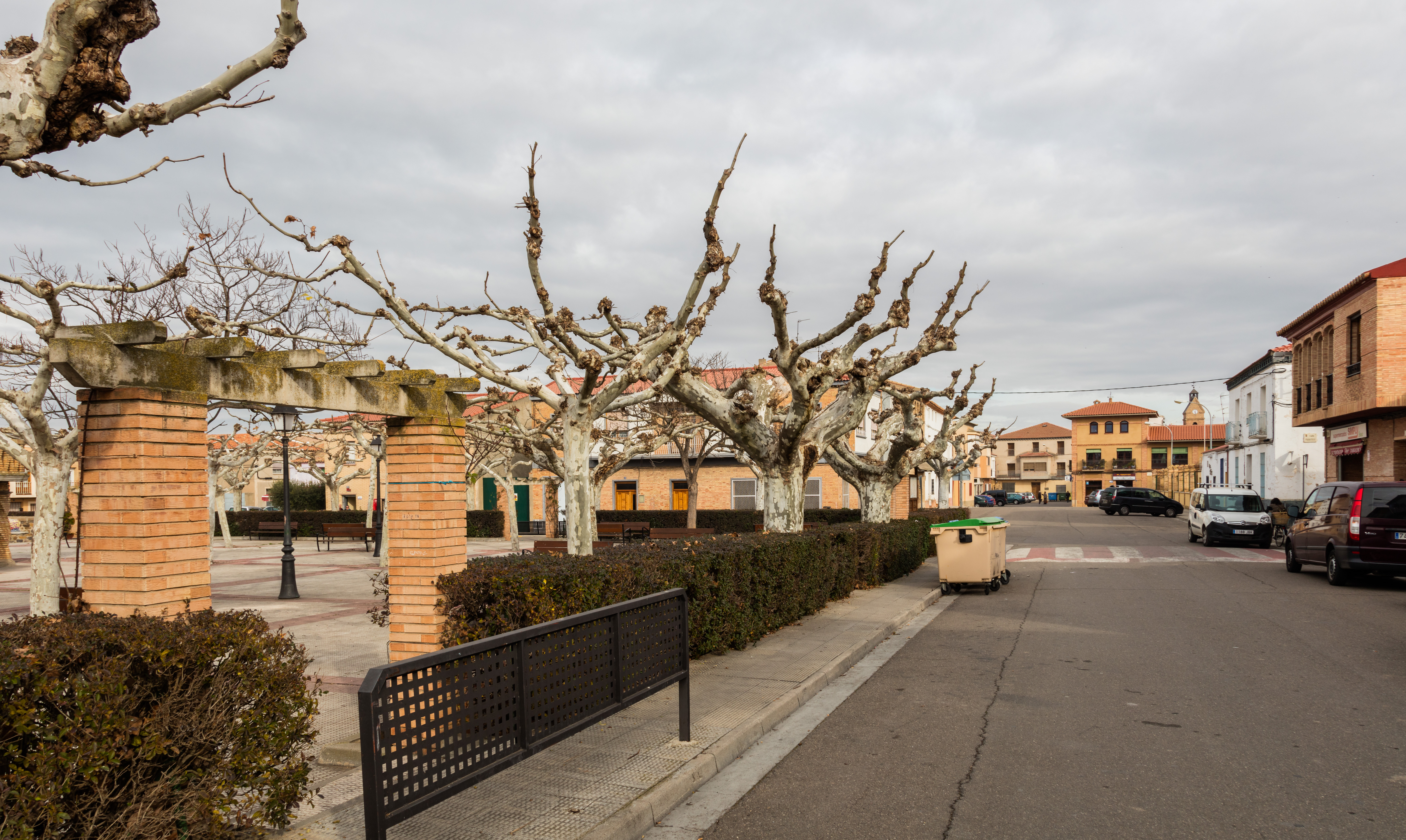 Luceni, Zaragoza, Spain